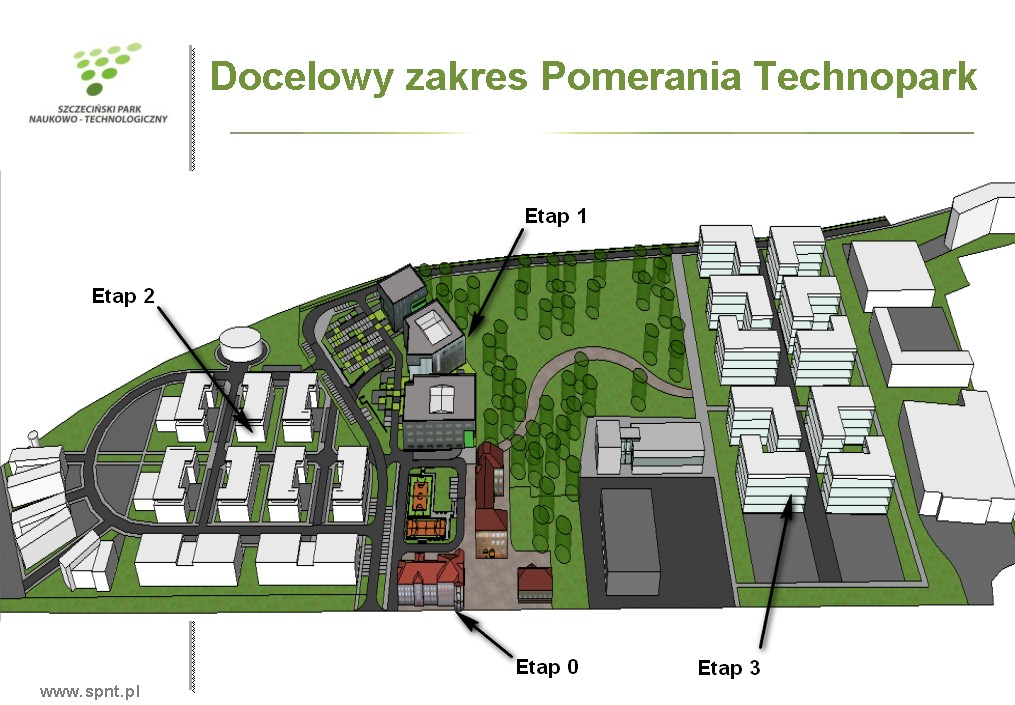 Projekt koncepcyjny Szczeciński Park Naukowo-Technologiczny "Pomerania"